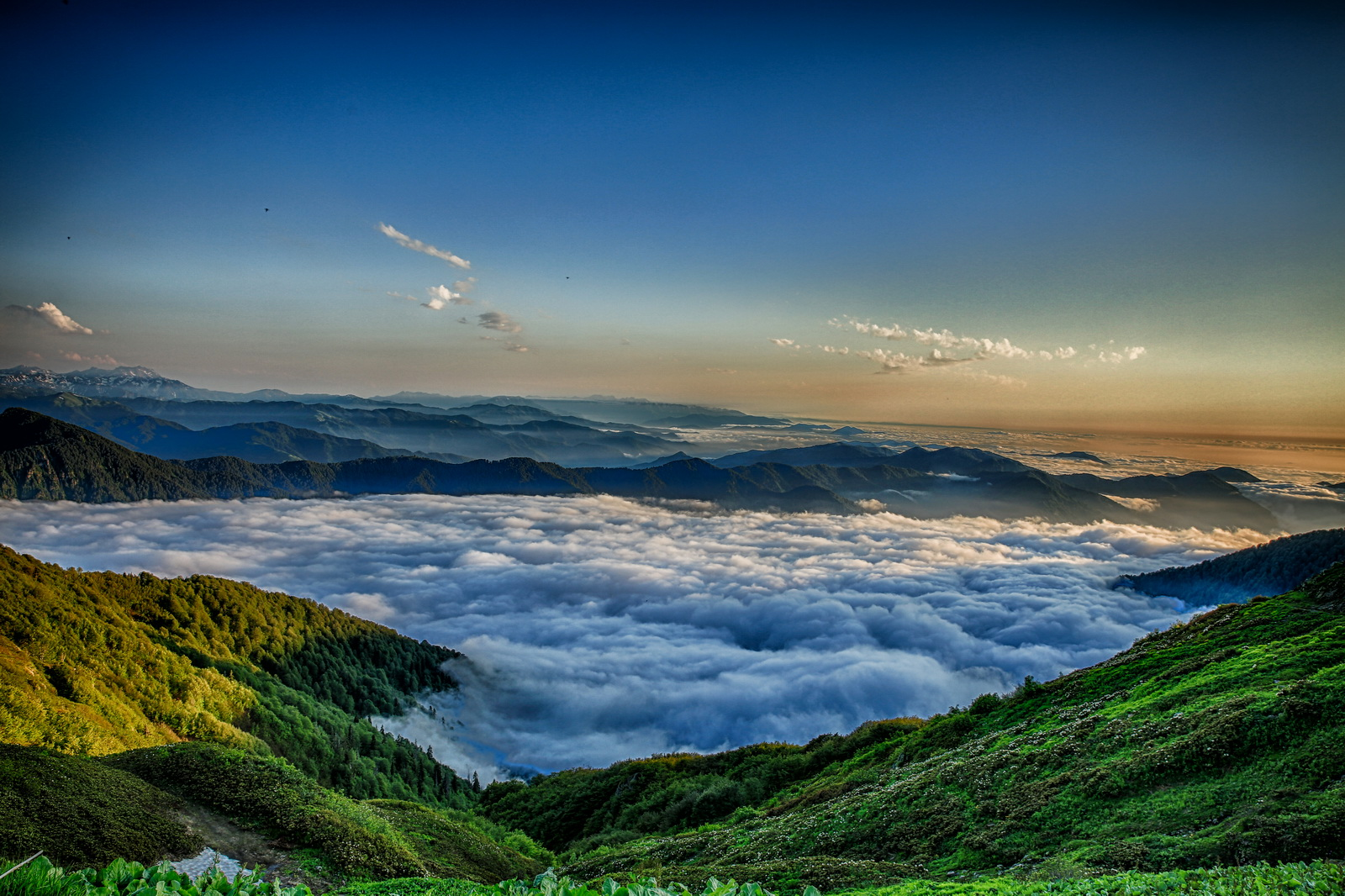 Kintrishi Protected Area is located in the Autonomous Republic of Adjara, Kobuleti region and its total area is 13.893 ha.